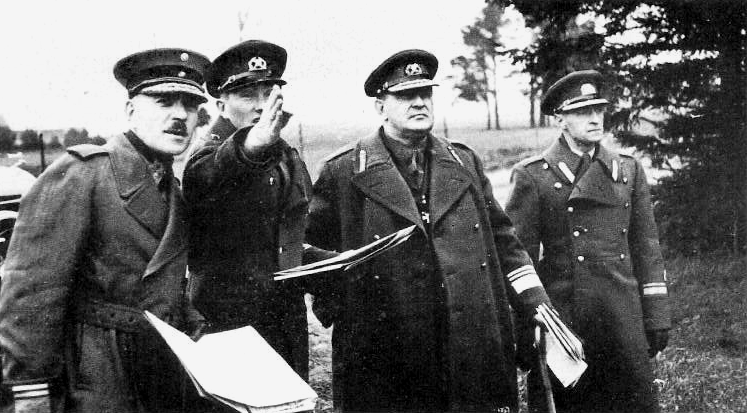 The Finnish Chief of the General Staff Lennart Oesch (on the left) monitors the Estonian army military exercises on October 1938. He also held a meeting with the Estonian General Staff of top secret military co-operation between Finland and Estonia. The Estonian Chief of the General Staff Nikolai Reek stands second from the right.